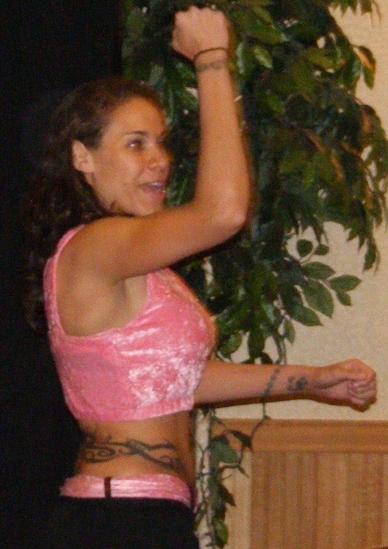 Professional wrestler Mercedes Martinez at an NWA-LS show in June 2010 in Manchester, NH.